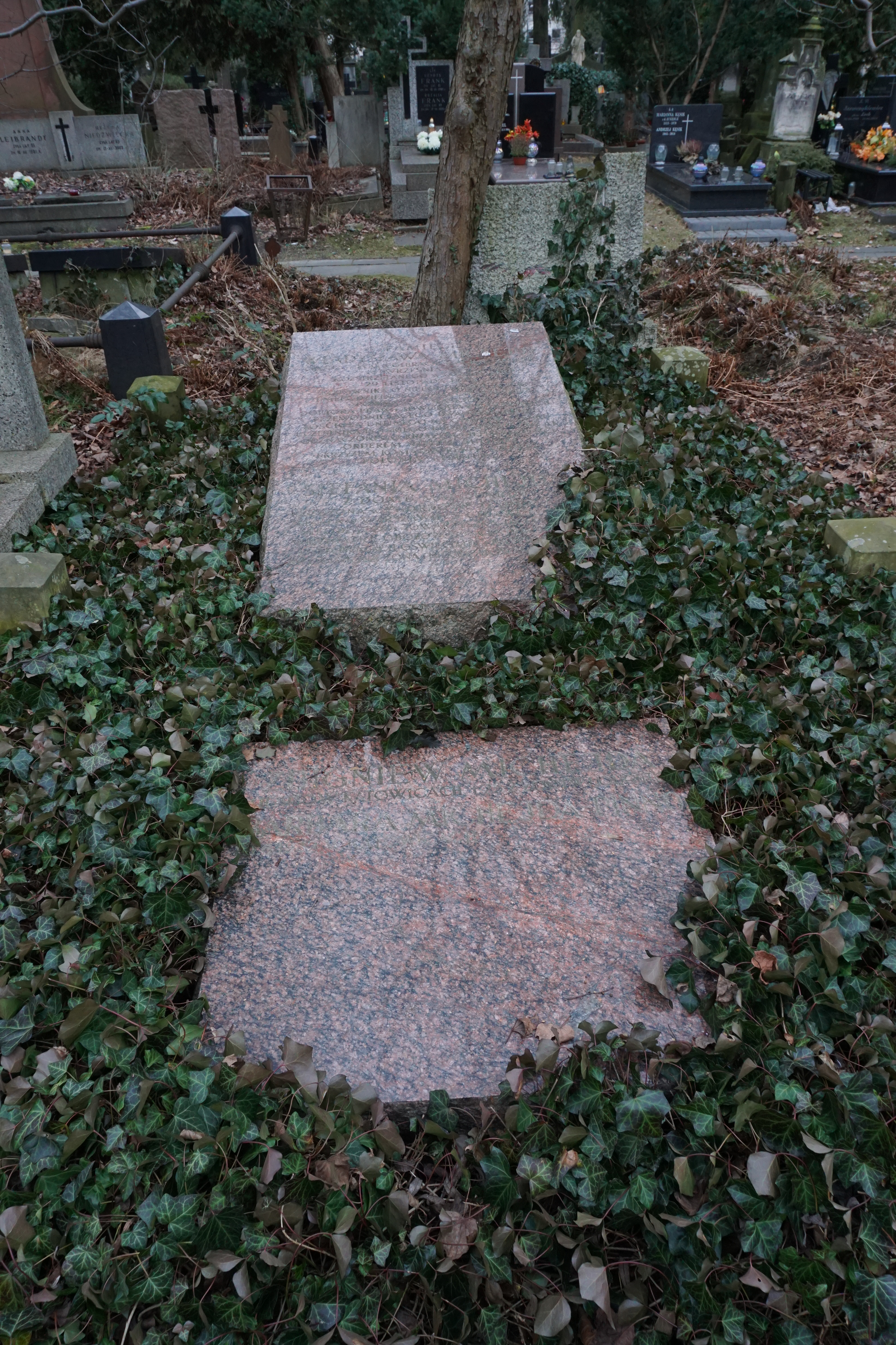 The grave of Zbigniew Michejda at the Evangelical-Augsburg cemetery in Warsaw (avenue 21, grave 33)